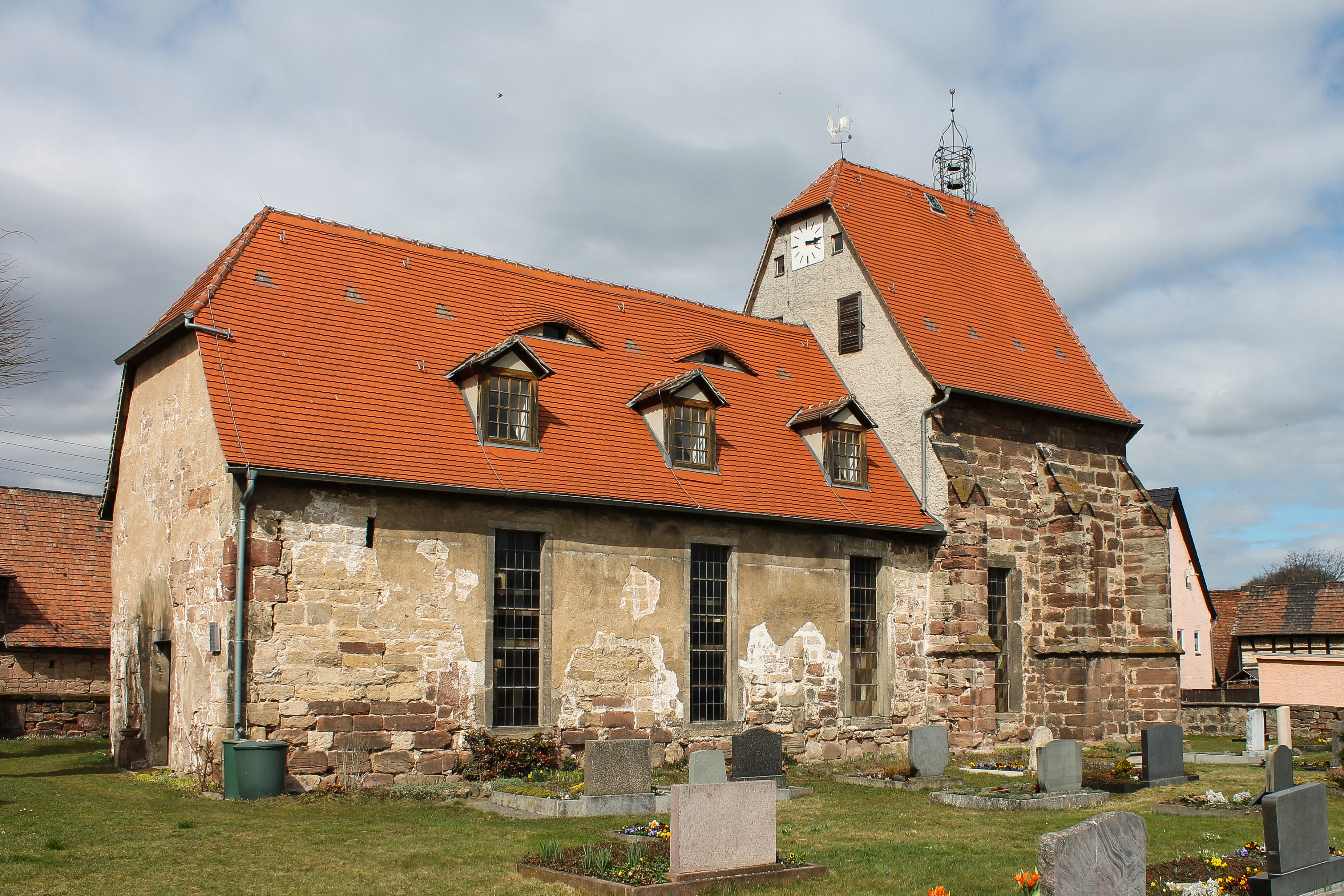 The church St. Laurentius in Maua.